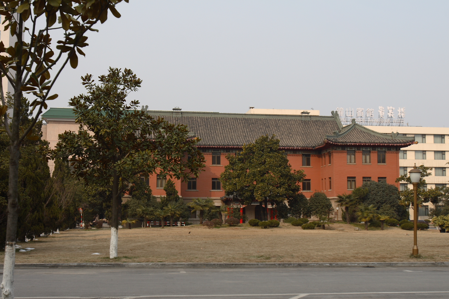 Lizhishe historical sites,Nanjing